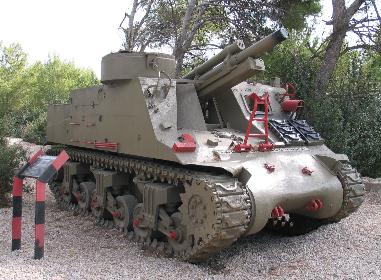 Description: M7 Priest Howitzer Motor Carriage in Beyt ha-Totchan, Zichron Yaakov, Israel. Source: Photo by me, User:Bukvoed.